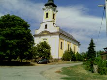 Immaculate Conception Parish Church in Kápolna